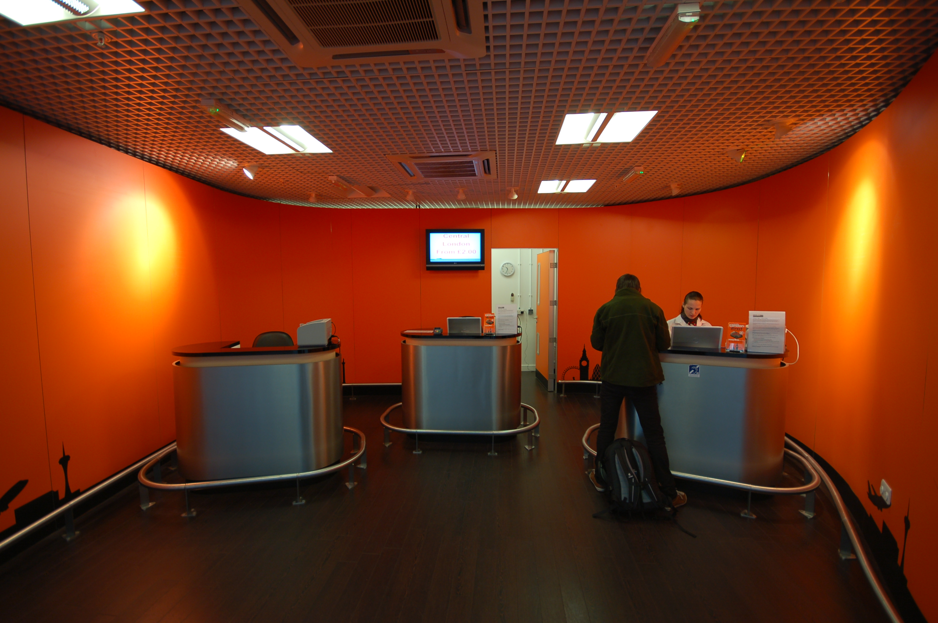 Box office where you can buy tickets for the Easyjet shuttle bus to London City; at London Stansted Airport